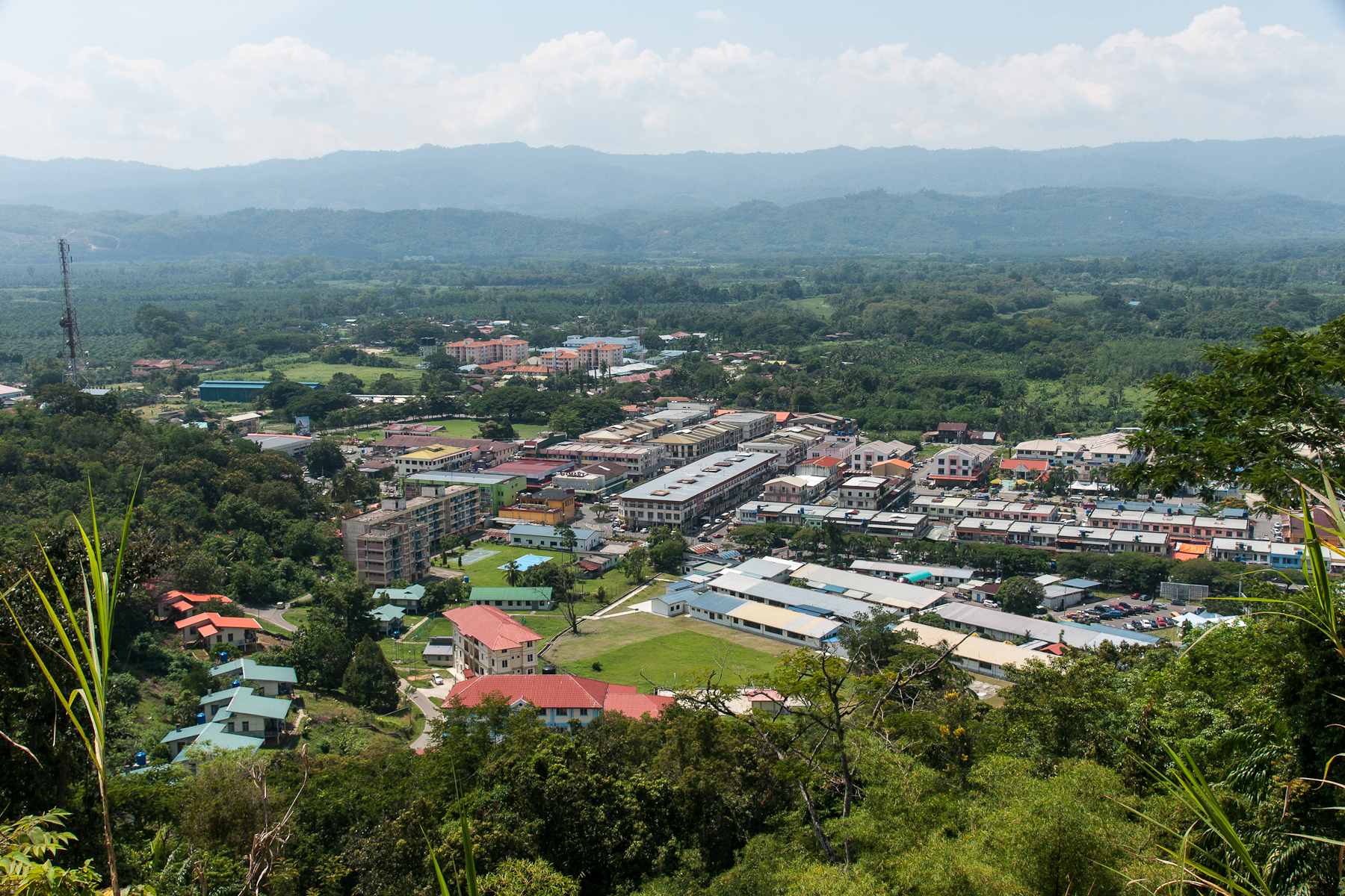 Township Tenom and the outskirts, taken in 2012 from Perkasa Hotel